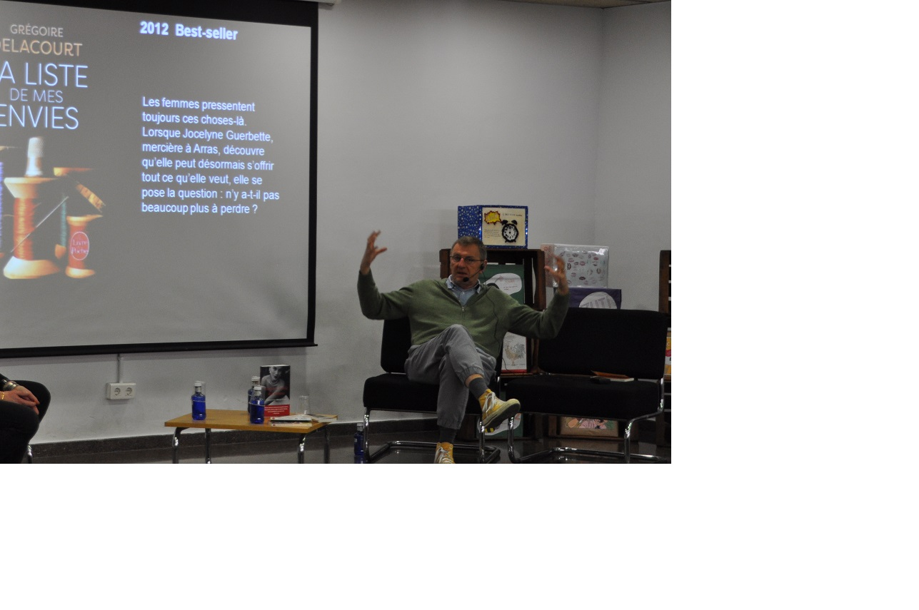 Gregoire Delacourt In a talk in Badalona